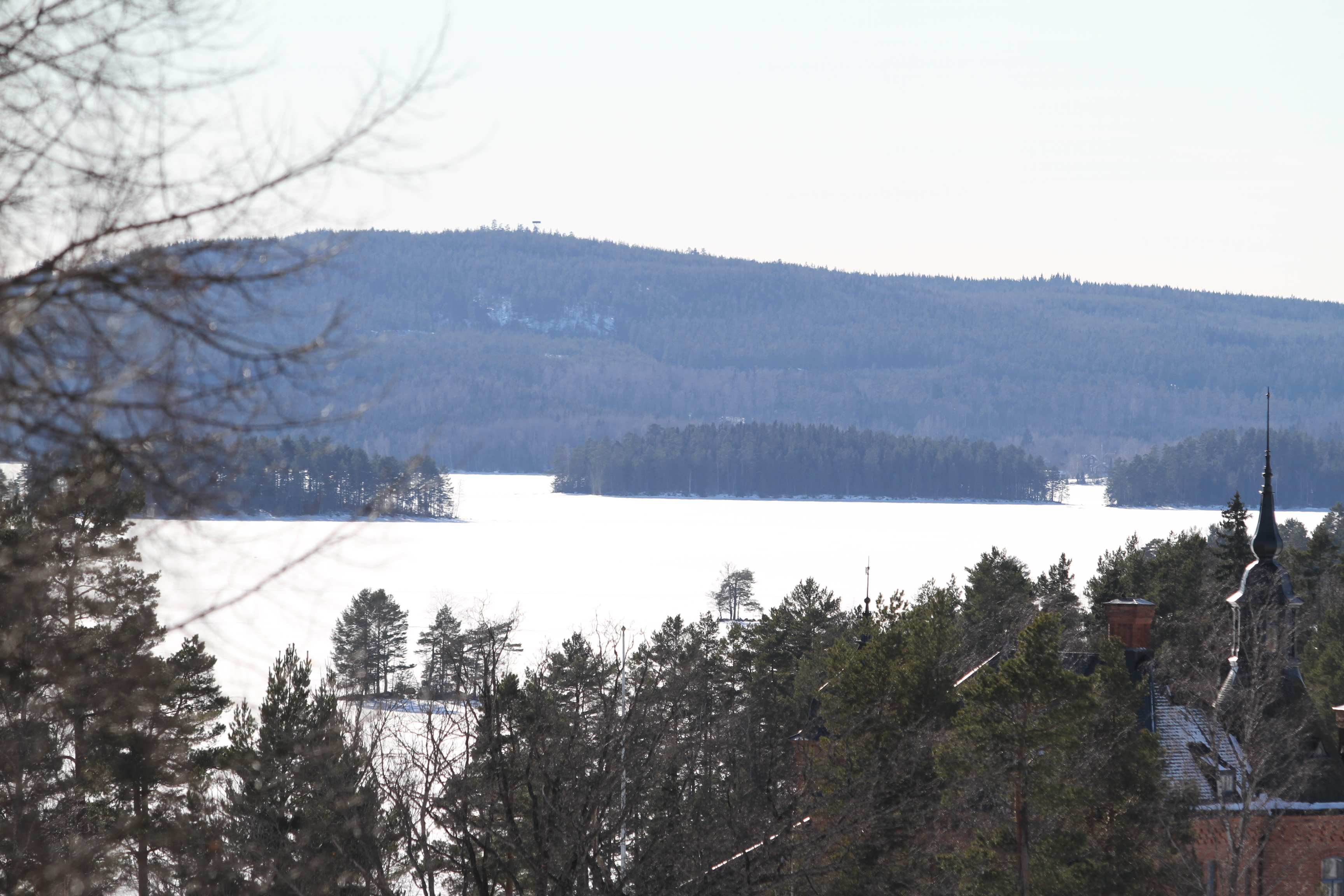 Landsberget, view from north east, Ängelsberg, with the villa Ulvaklev in front